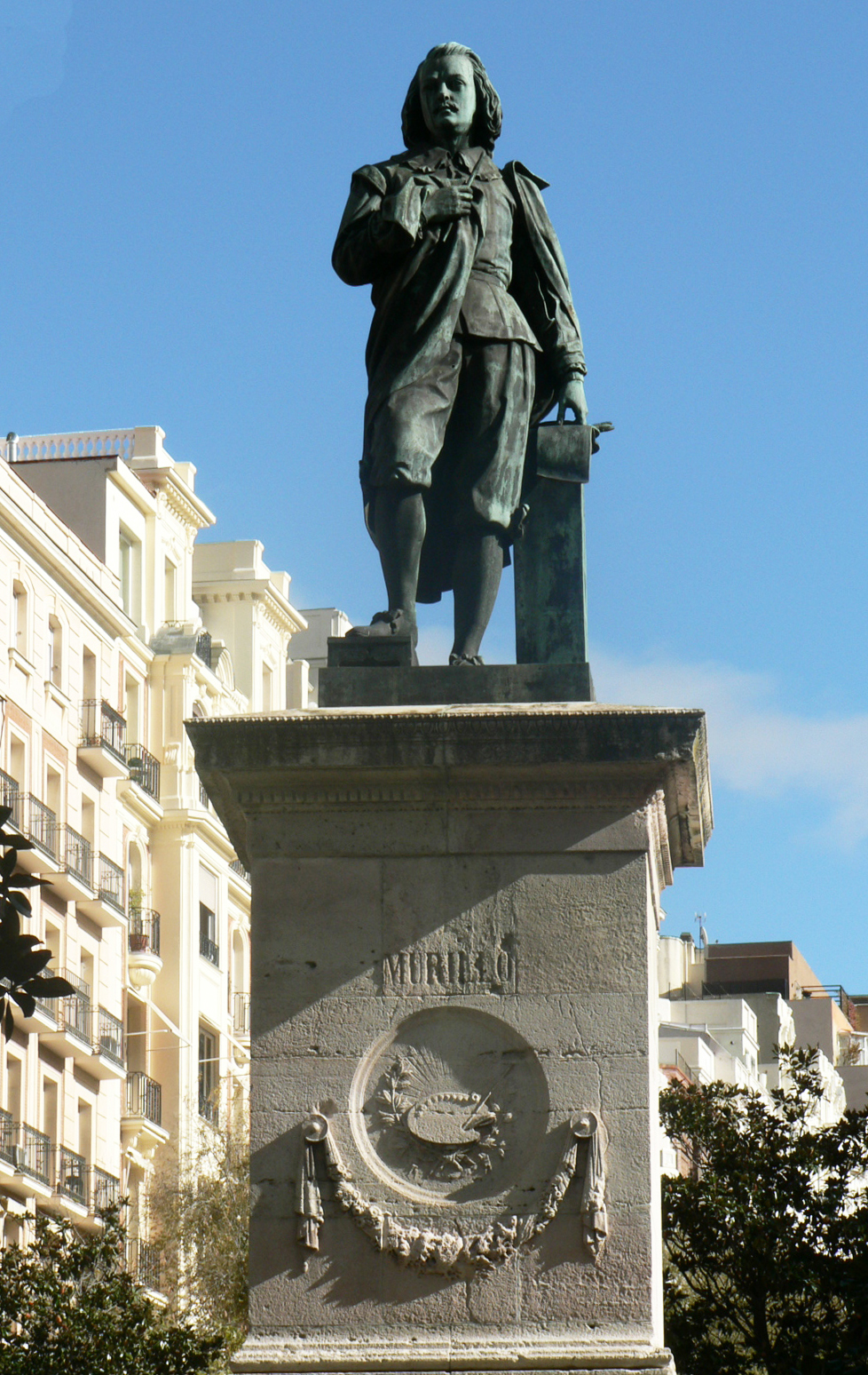 Bronze statue to Bartolomé Esteban Murillo (1617–1682) at the Plaza de Murillo (square) in Madrid (Spain), beside the Prado Museum. Inaugurated in 1871. This statue is a replica of the one in Seville made by sculptor Sabino de Medina (1812–1888).